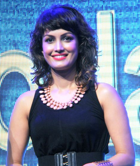 Nisha Rawal at the 13th Sailor Today Sea Shore Awards.